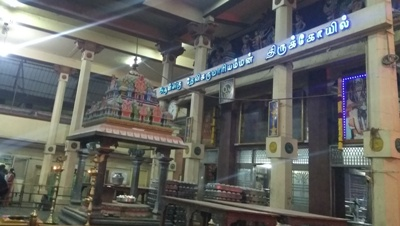 Tiruverkkadu devikarumariamman temple திருவேற்காடு தேவிகருமாரியம்மன் கோயில்